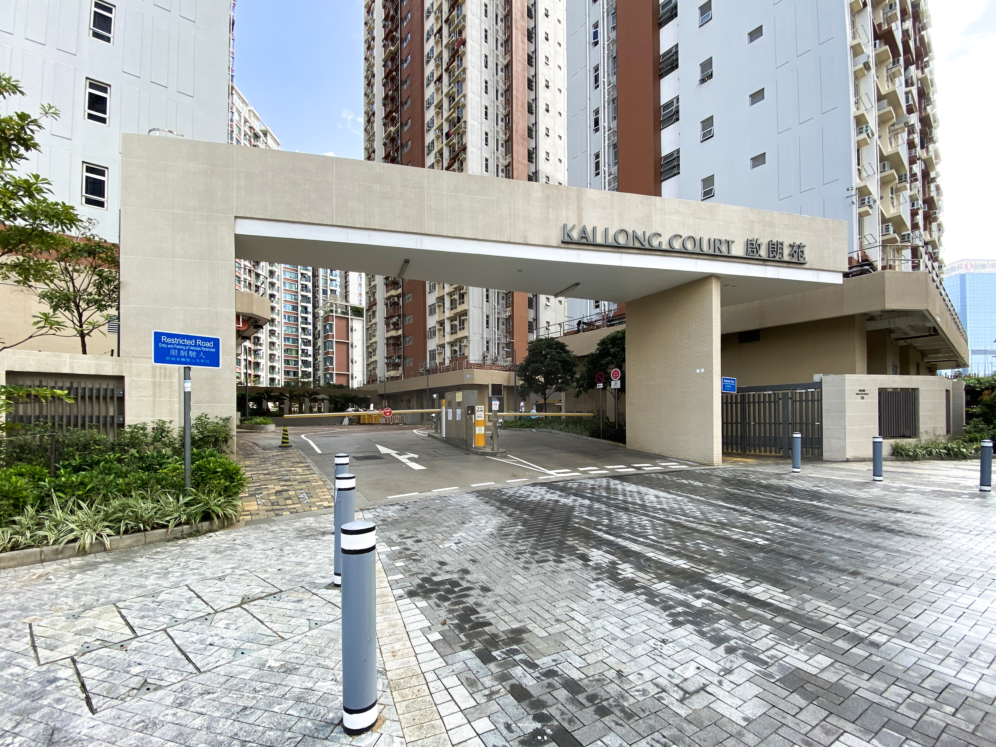 Kai Long Court Entrance